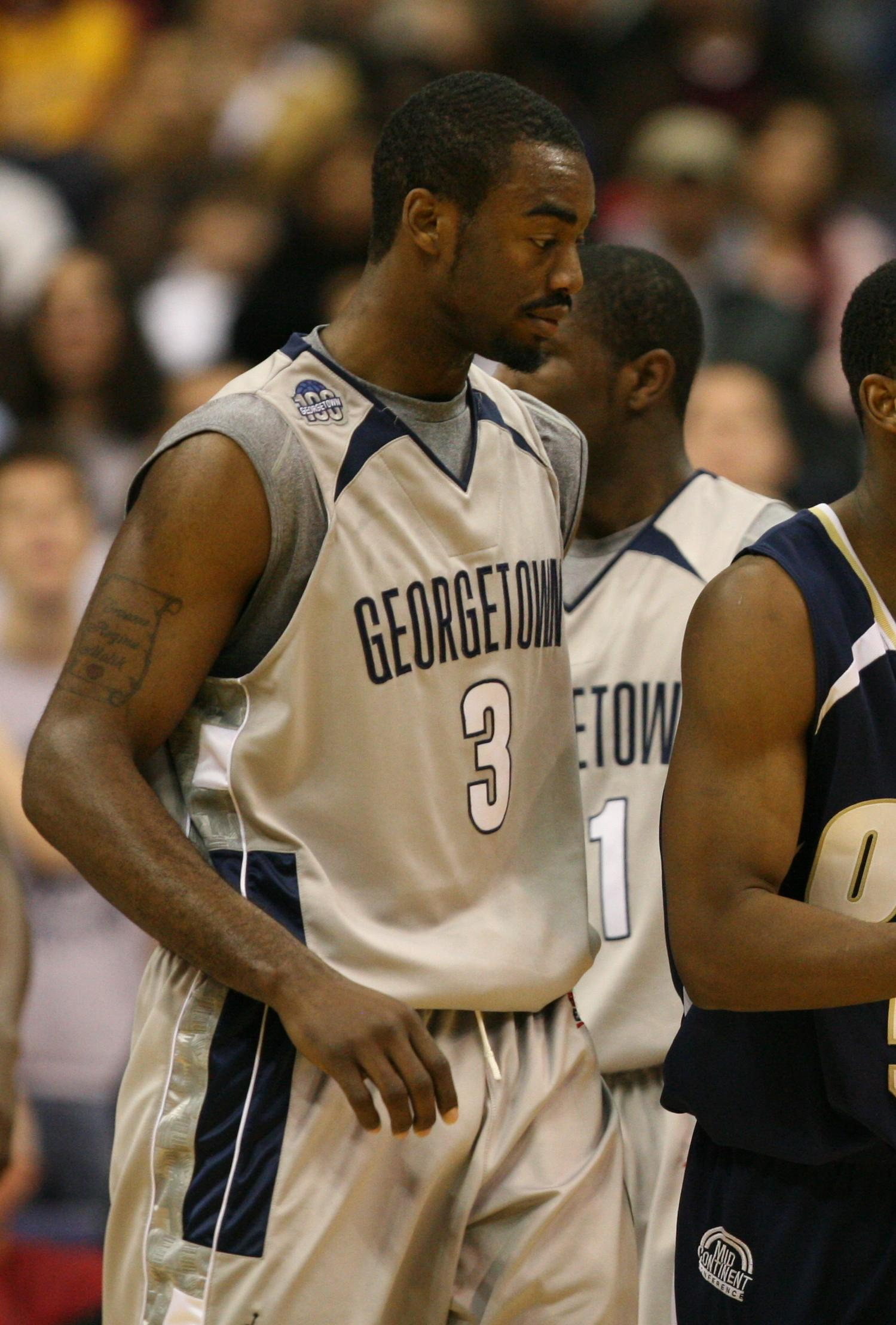 DaJuan Summers at a game against the Oral Roberts Golden Eagles